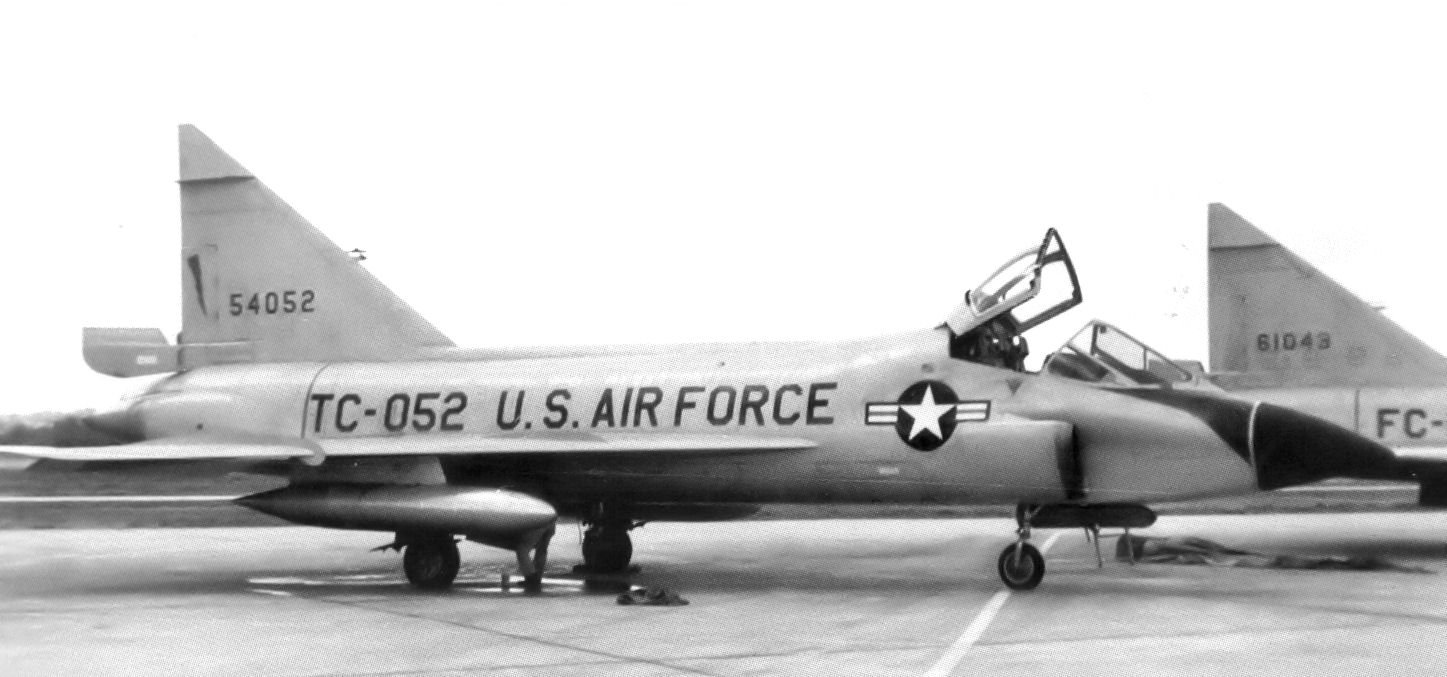 86th Fighter-Interceptor Squadron Convair TF-102A-36-CO Delta Dagger 55-4052 79th Fighter Group, Youngstown Air Force Base, Ohio, August 1959 Convair F-102A-55-CO Delta Dagger 56-1043 visible in background.